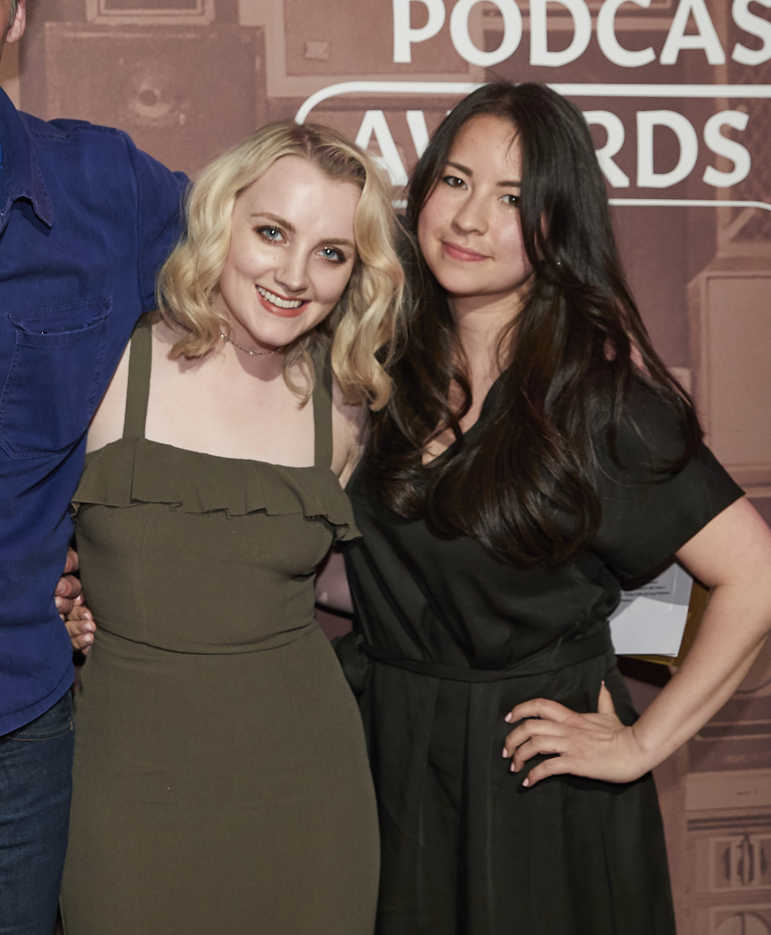 Thomas Griffin, Craig Parkinson, Evanna Lynch and Momoko Hill